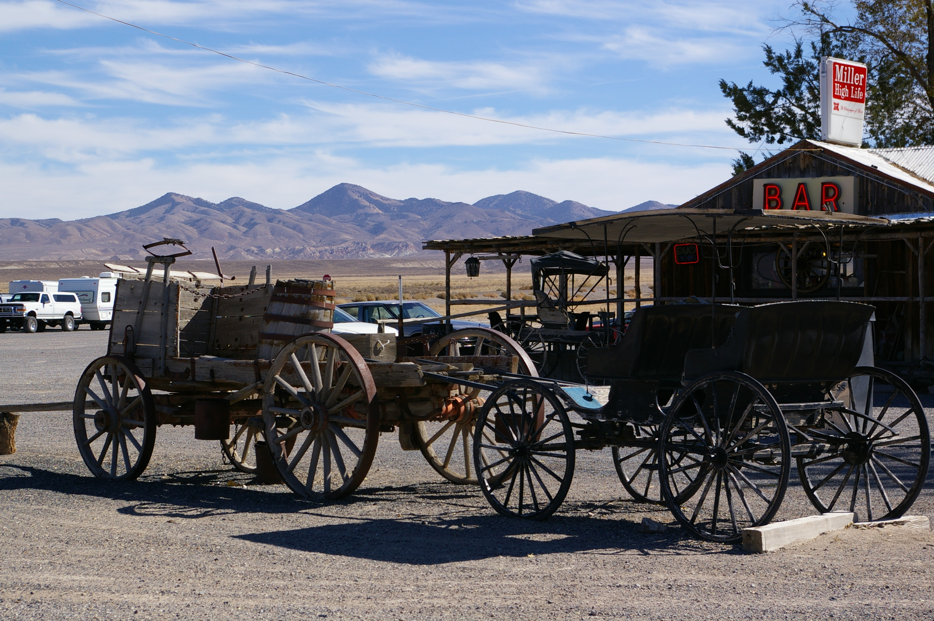 Middlegate Station, a roadhouse along U.S. Route 50 in Nevada that has existed since the Pony Express era